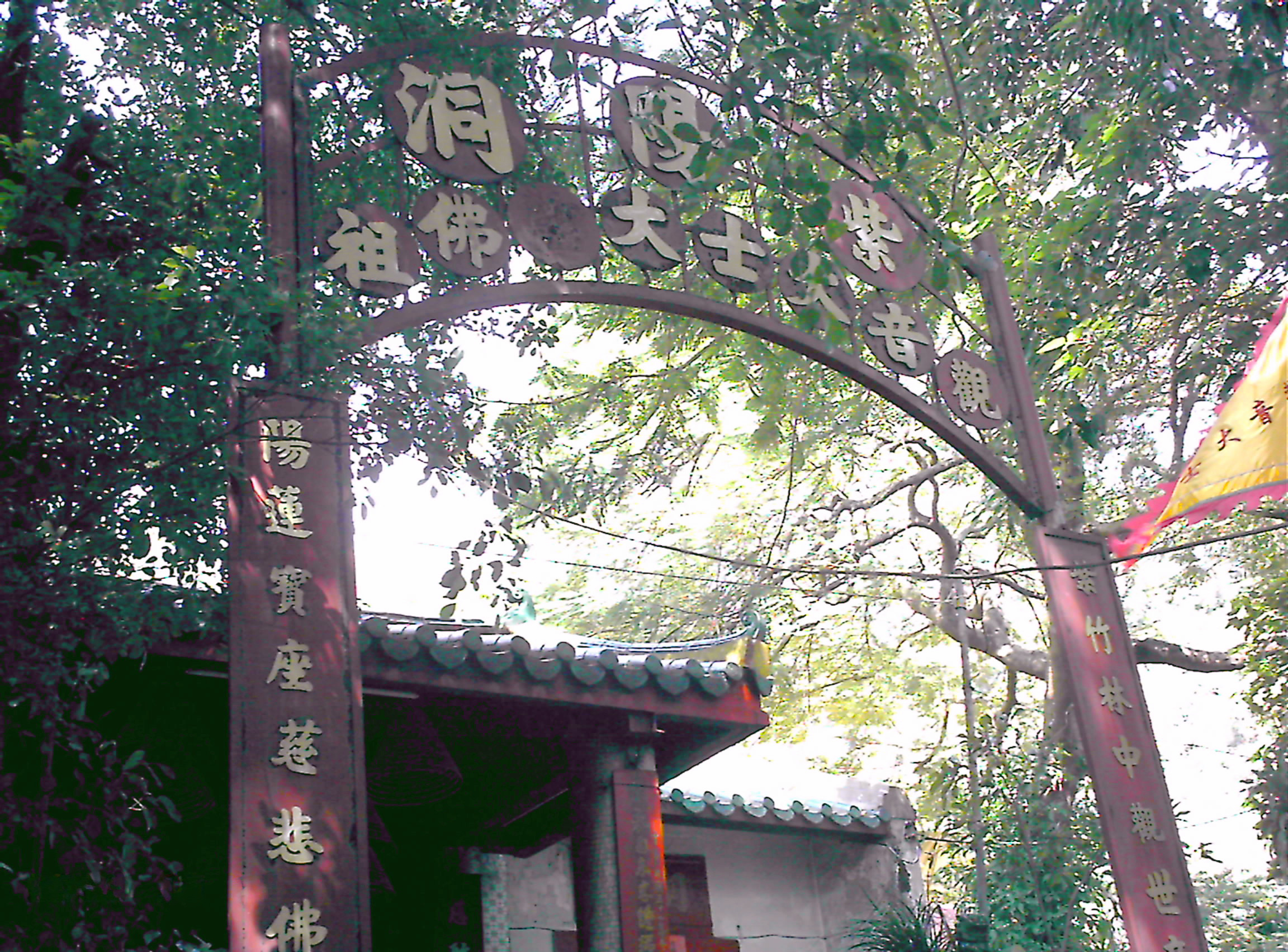 Tse Yeung Tung Main Gate 中文（香港）: 紫陽洞佛堂的山門